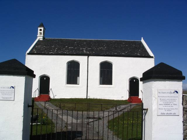 Church at the head of the harbour, Portnahaven The church at the head of the harbour is interesting for having two doors, one was intended for the use of the people of Portnahaven on the left, the other for the residents of Port Wemyss.